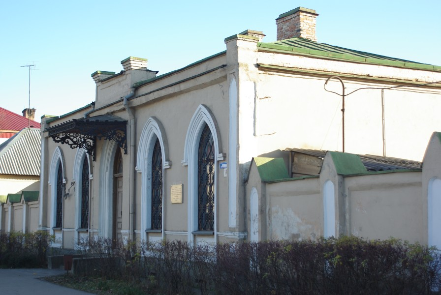 Post station an local museum in Nevel (Pskov Region, Russia)